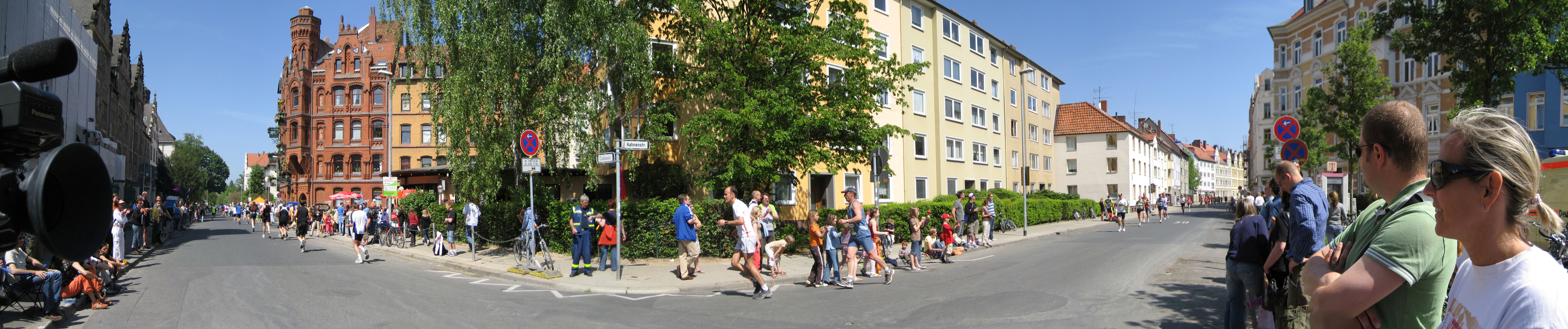 Marathon race in Hannover